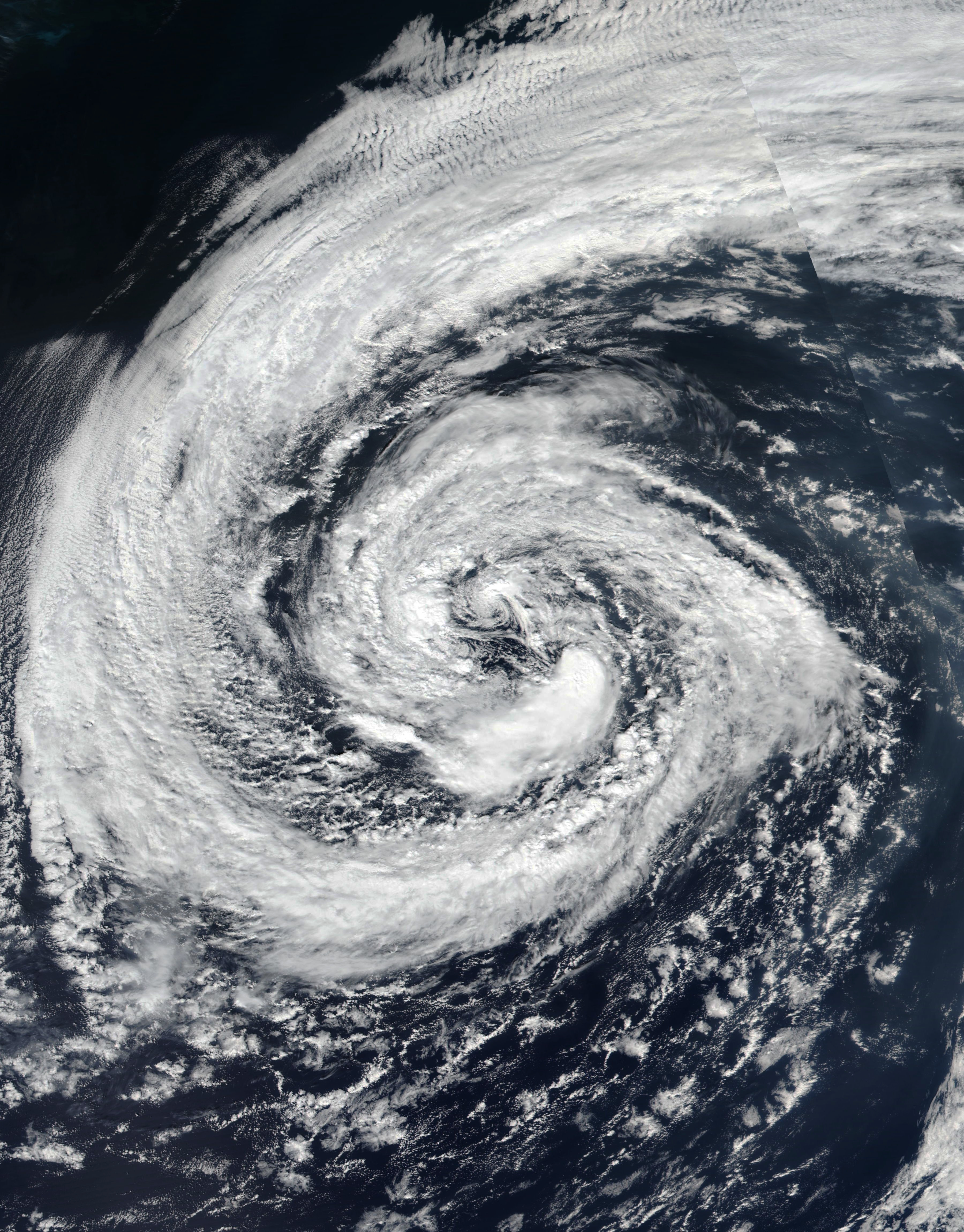 Post-Tropical Cyclone Leslie on September 27, 2018